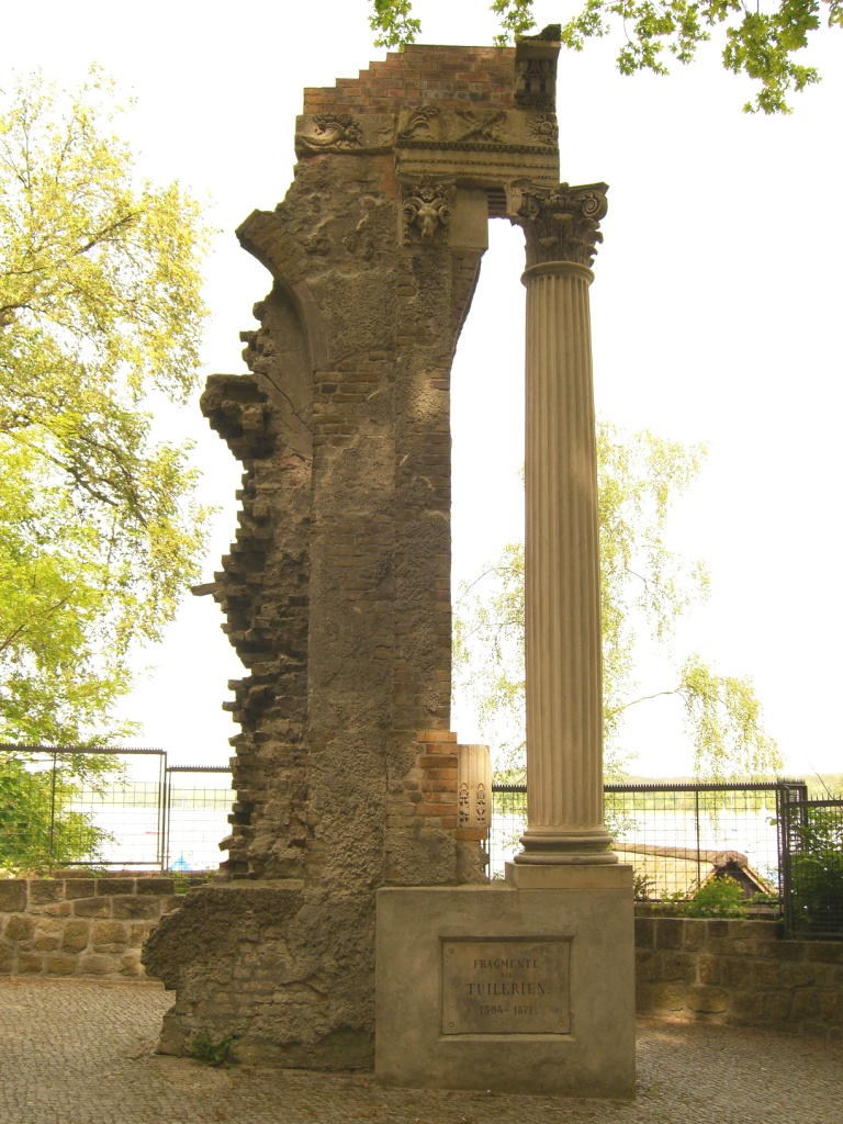 Column of the Tuileries Palace; the column is now located on island "Schwanenwerder" at Berlin